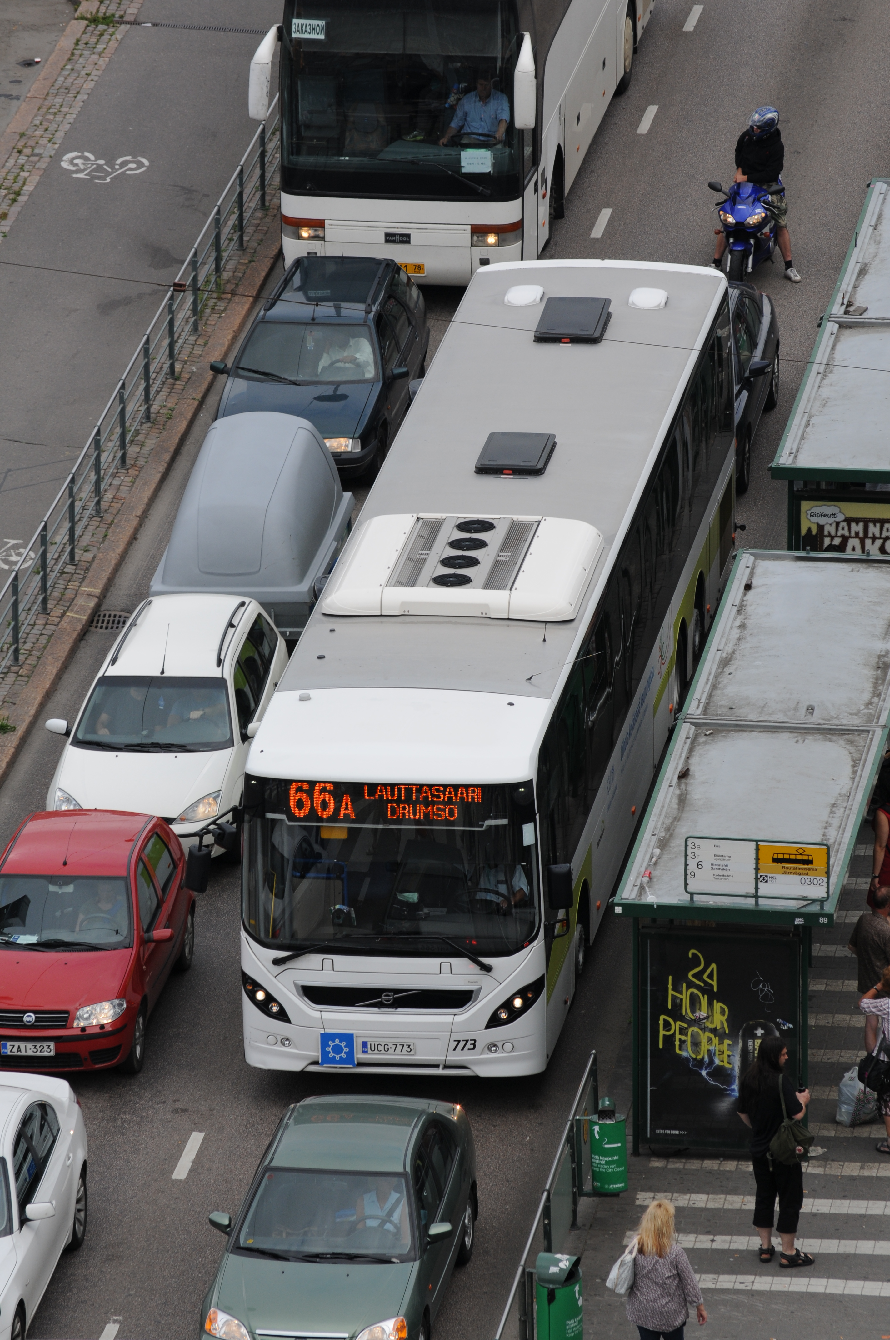 Volvo 8500 LE 6x2 bus (reg. UCG-773, #773) with Volvo B12BLE chassis in Helsinki, Finland.